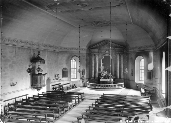 Interior of Asker church, Sweden